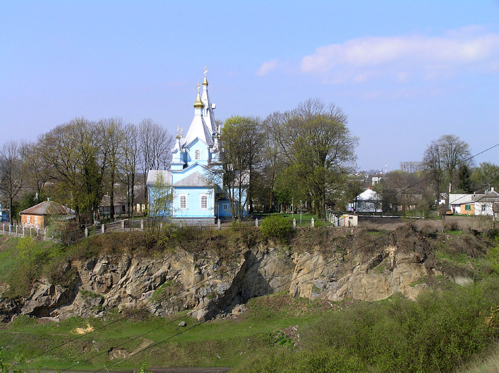 Saints Cosmas' and Damian's church in Novyj Korets village.